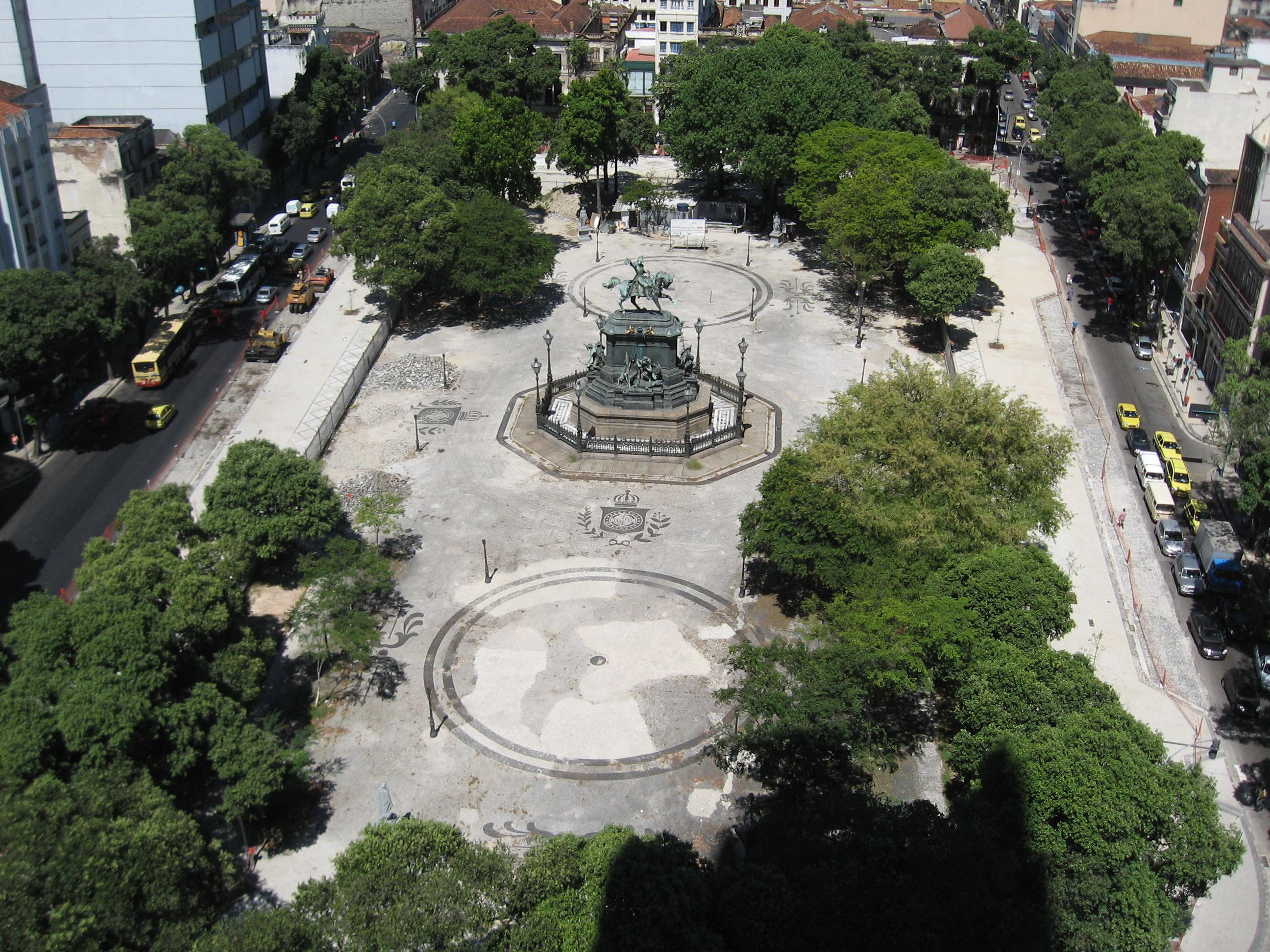 Tiradentes Square-Rio de Janeiro-Brazil